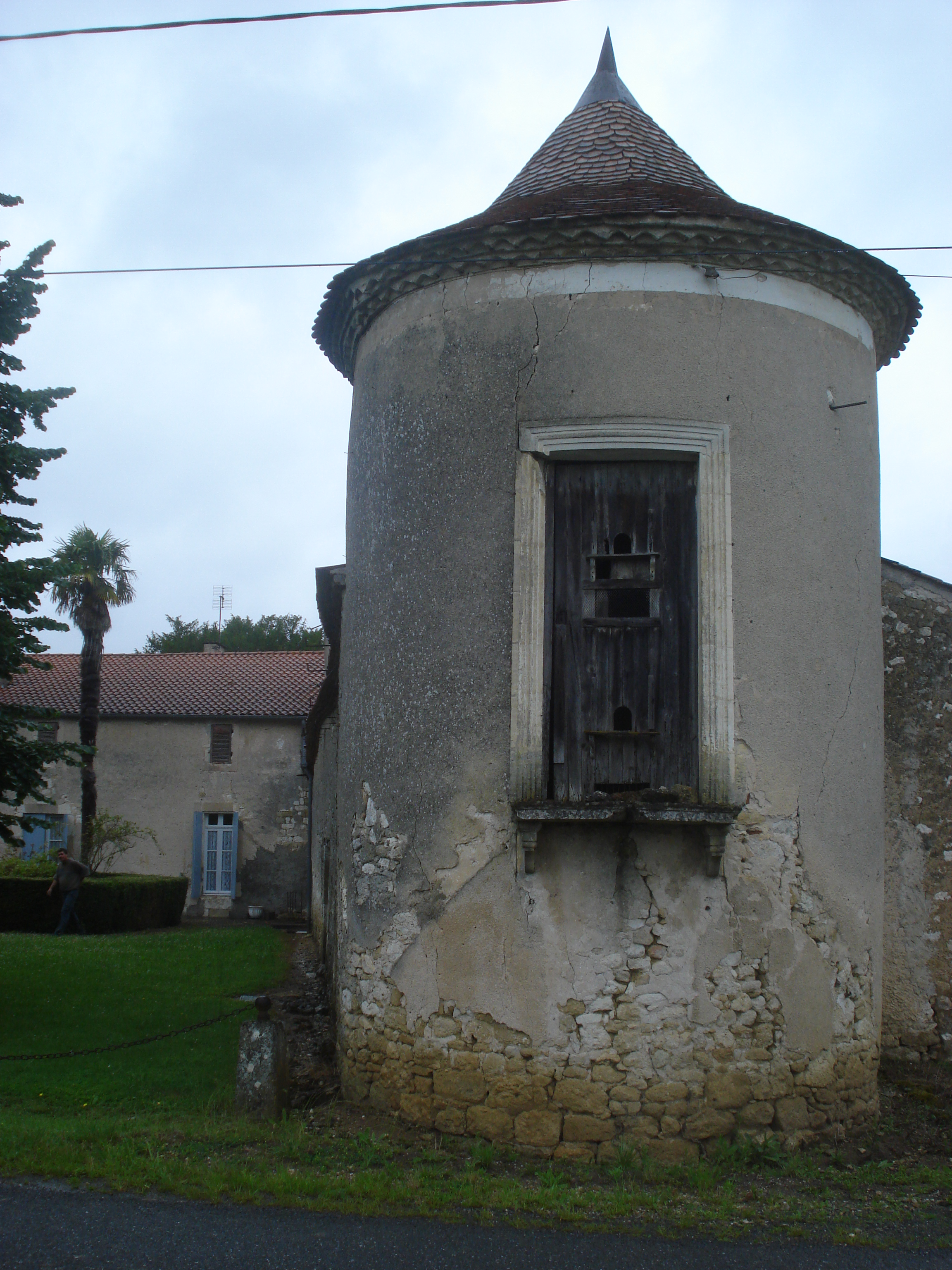 Dovecote tower at Les Gourds, outside Les Lèves, municipality of (Gironde, Fr)